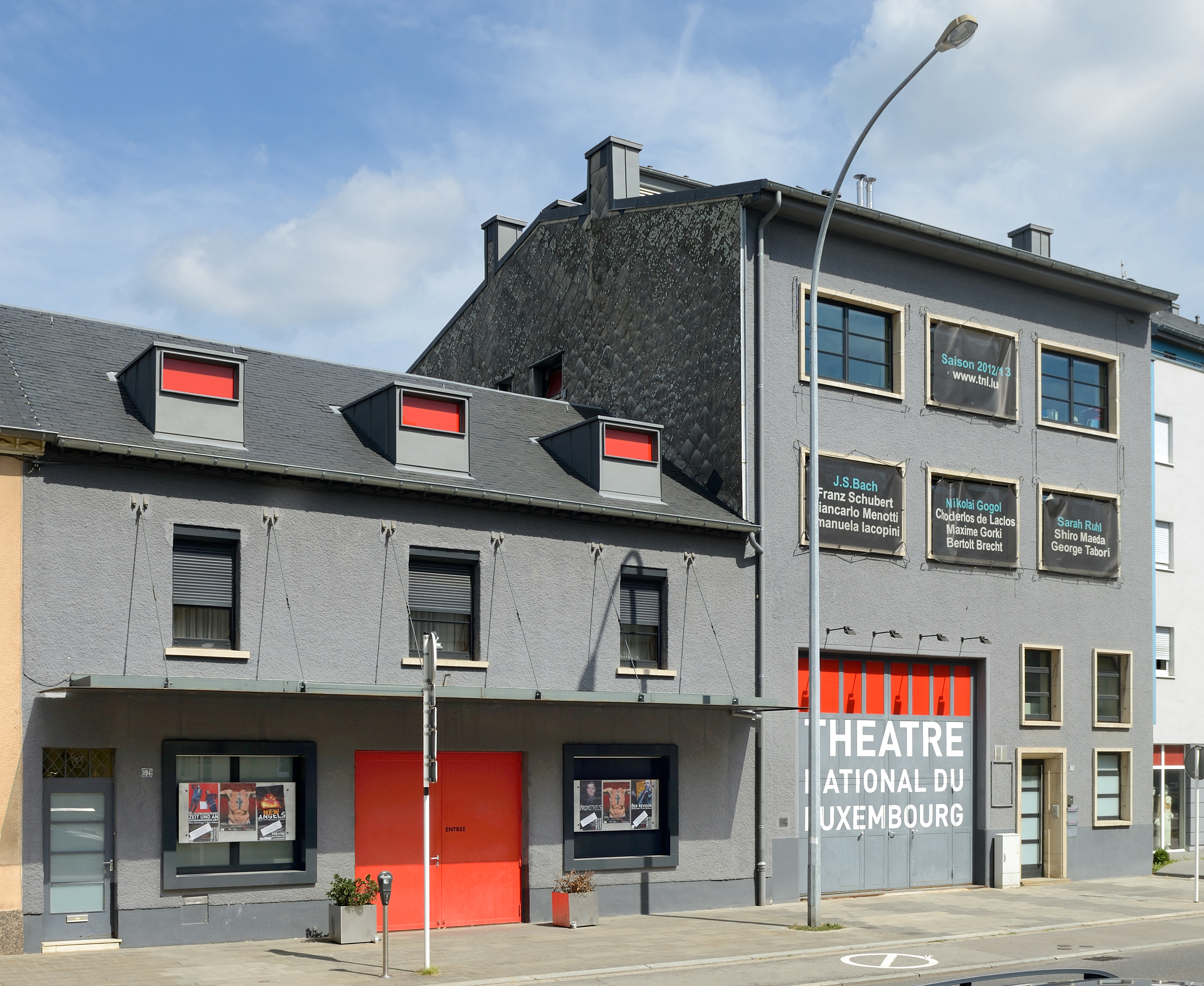 National Theatre of Luxembourg in Luxembourg City, route de Longwy.